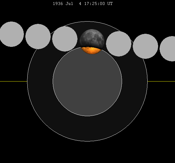 Lunar eclipse chart of moon's path through the earth's shadow. thumb